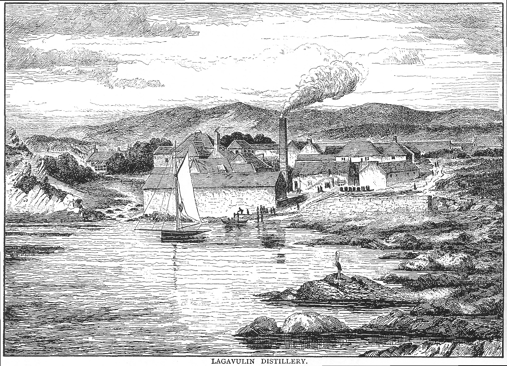 View of the Lagavulin distillery in 1886, from Alfred Barnard (1837—1918)